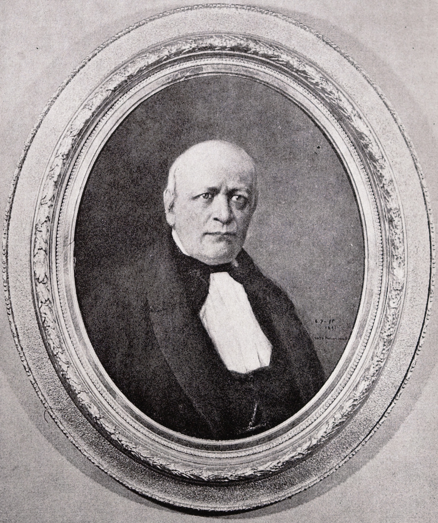 Finnish industrialist Nils Ludvig Arppe. His company built Finland's first steam-powered ship, Ilmarinen.